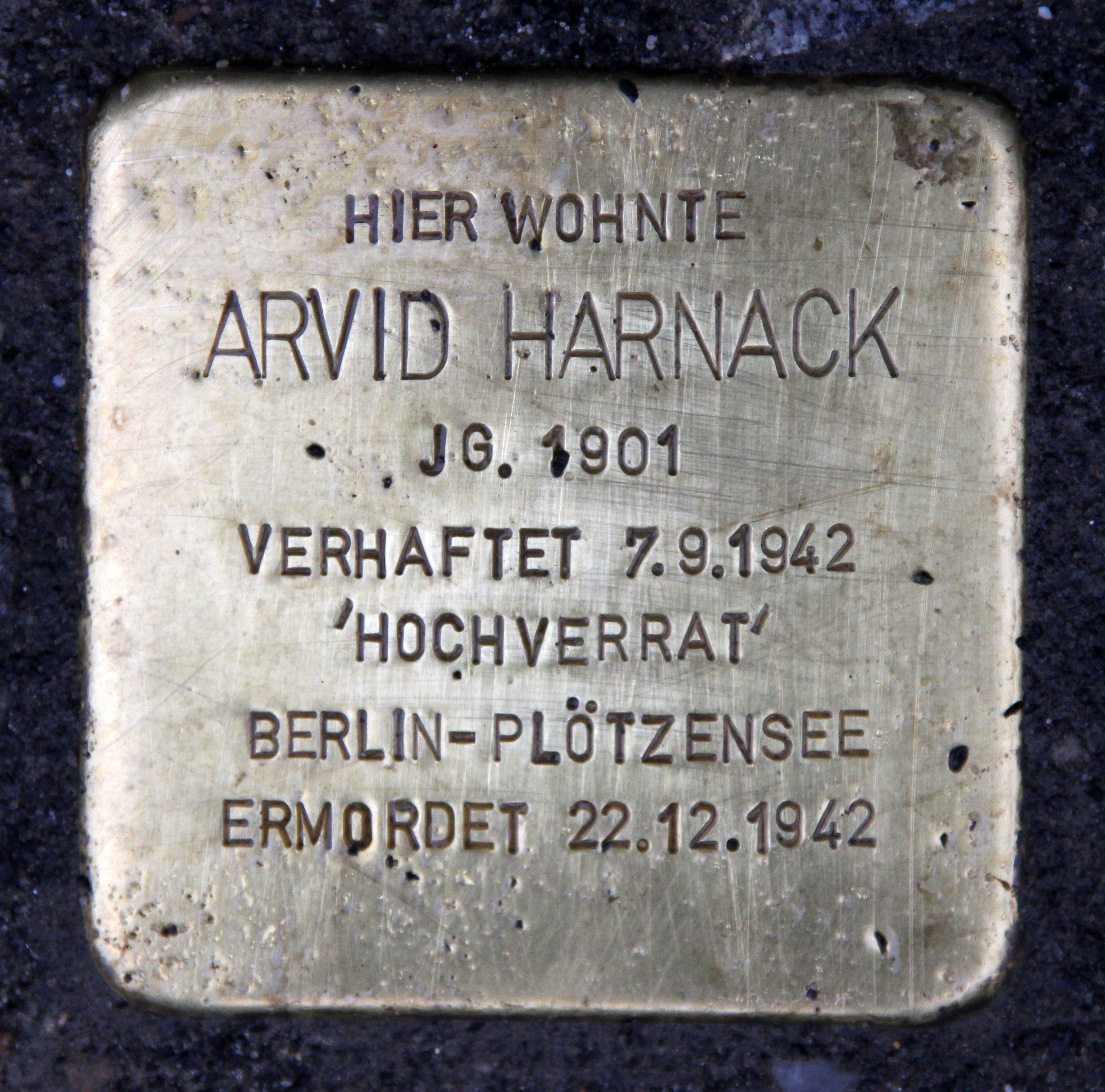 "Stolperstein" (stumbling block), Arvid Harnack, Genthiner Straße 14, Berlin-Tiergarten, Germany